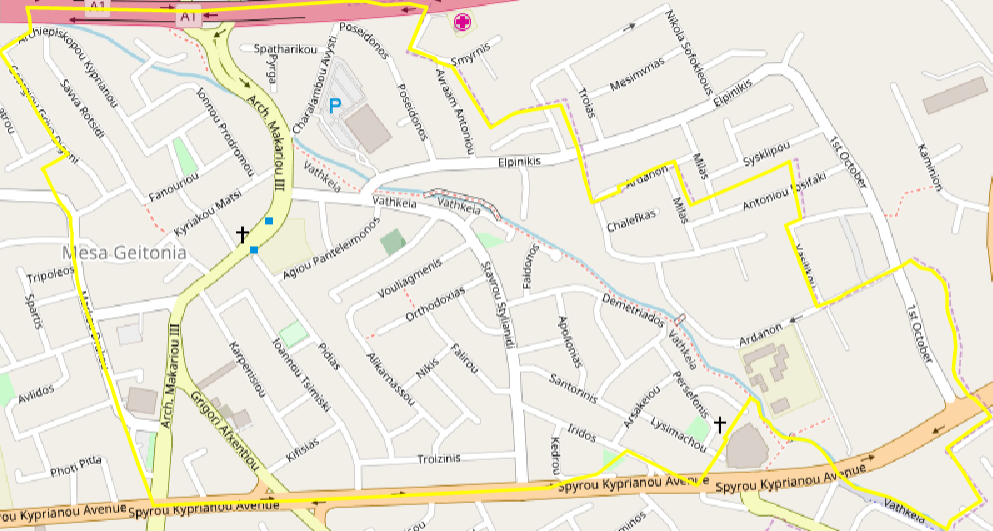 Map of Timios Prodromos (Mesa Geitonia).